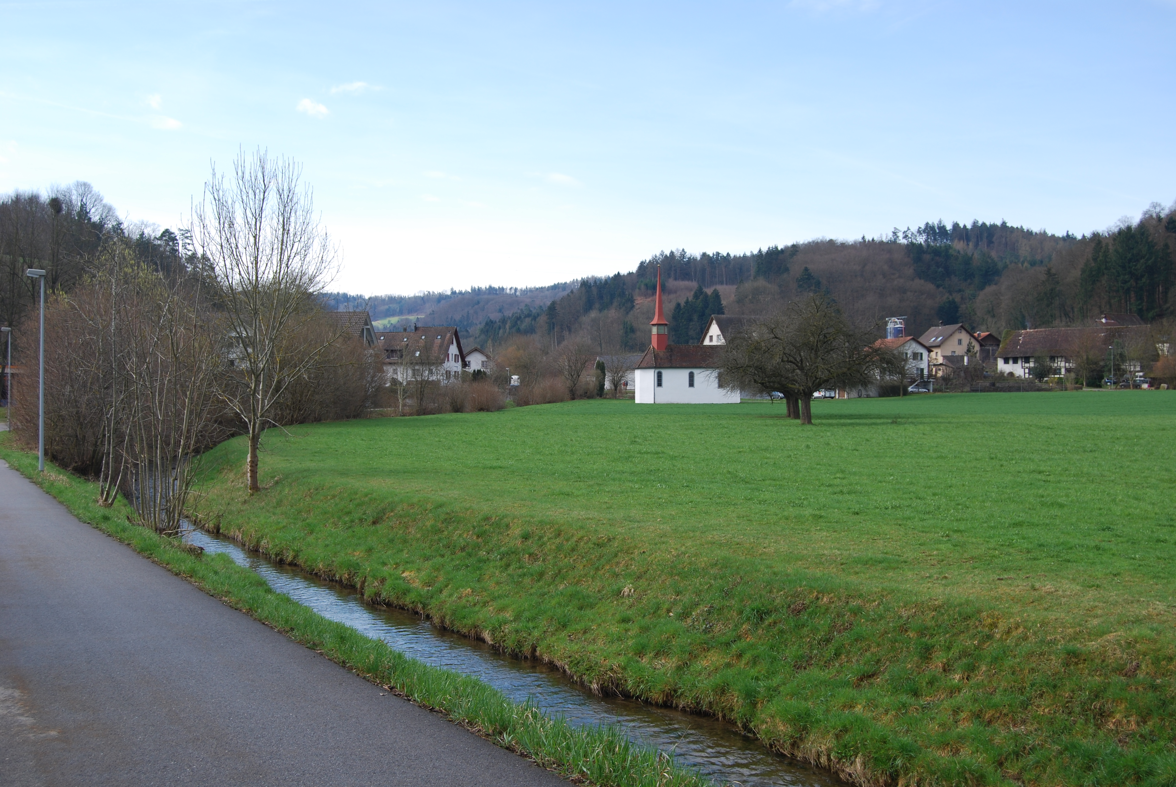 Church of Fisibach, canton of Aargau, SwitzerlandEsperanto: Preĝejo de Fisibach, Kantono Argovio, Svislando